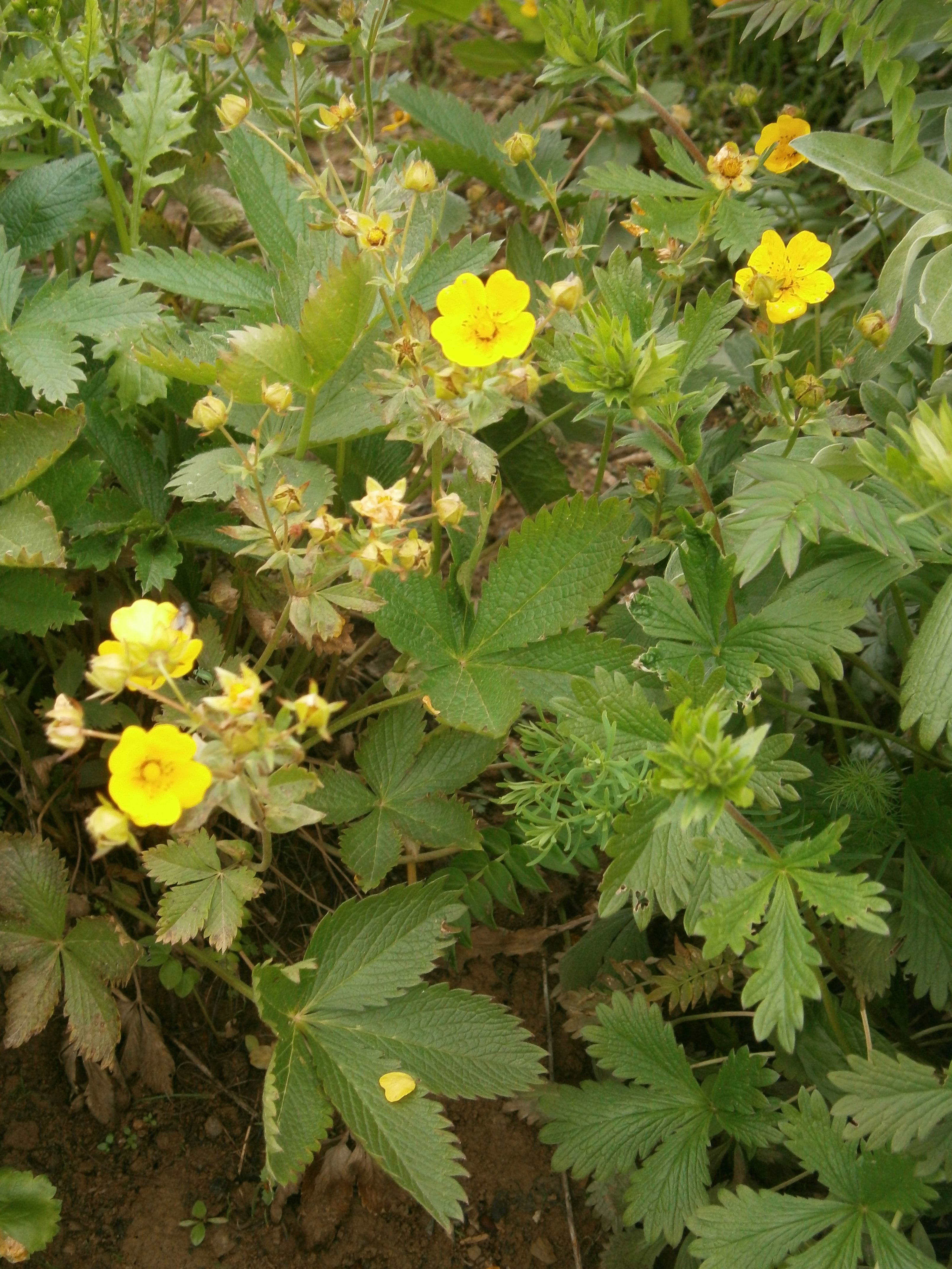 Potentilla delphinensis in the Jardin Botanique Alpin du Lautaret